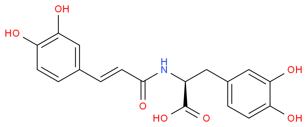 Clovamide skeletal structure.